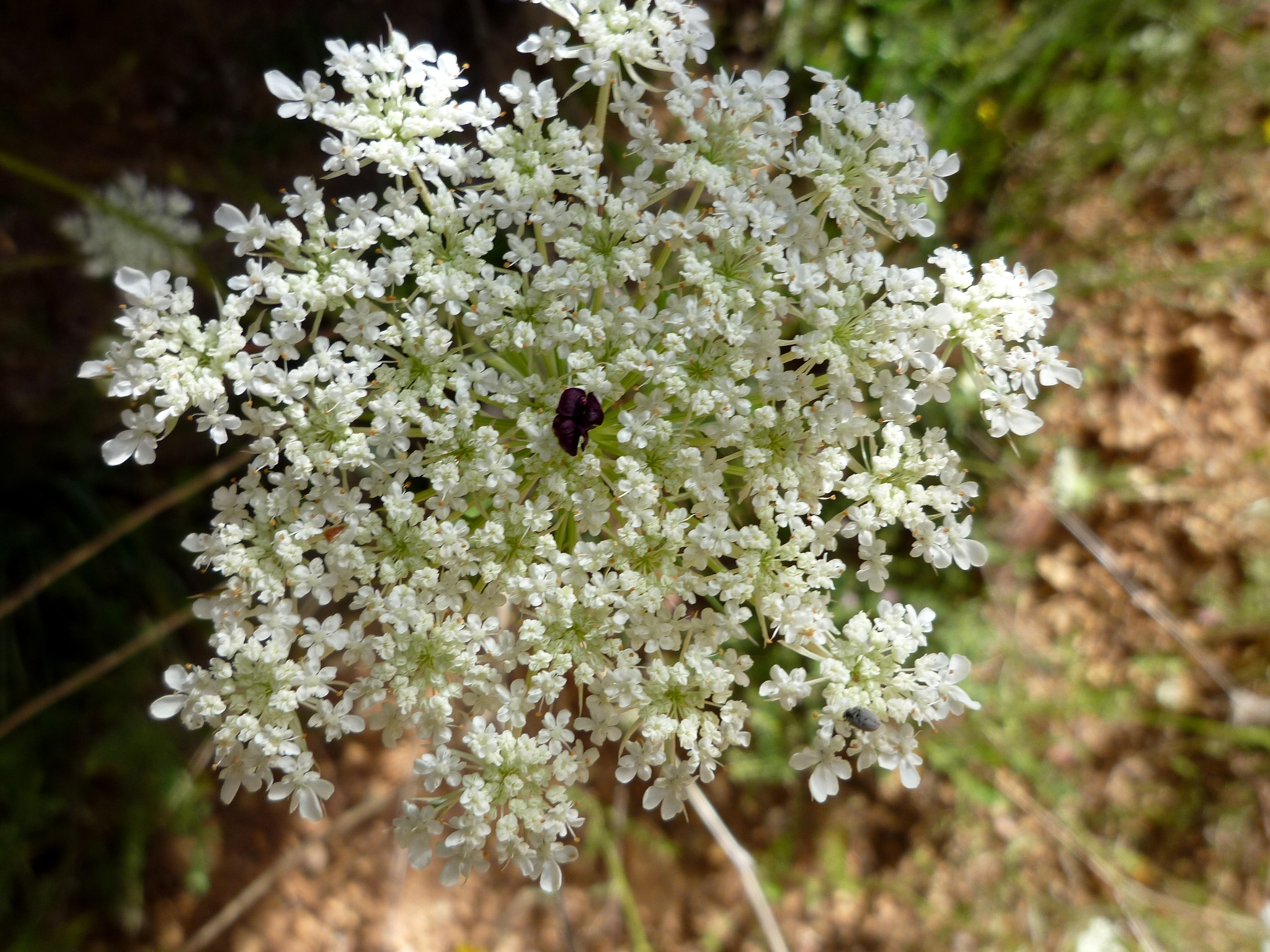 Daucus carota. In la Bòfia, La Vansa (Alt Urgell - Catalunya). To 1.580 m. altitude